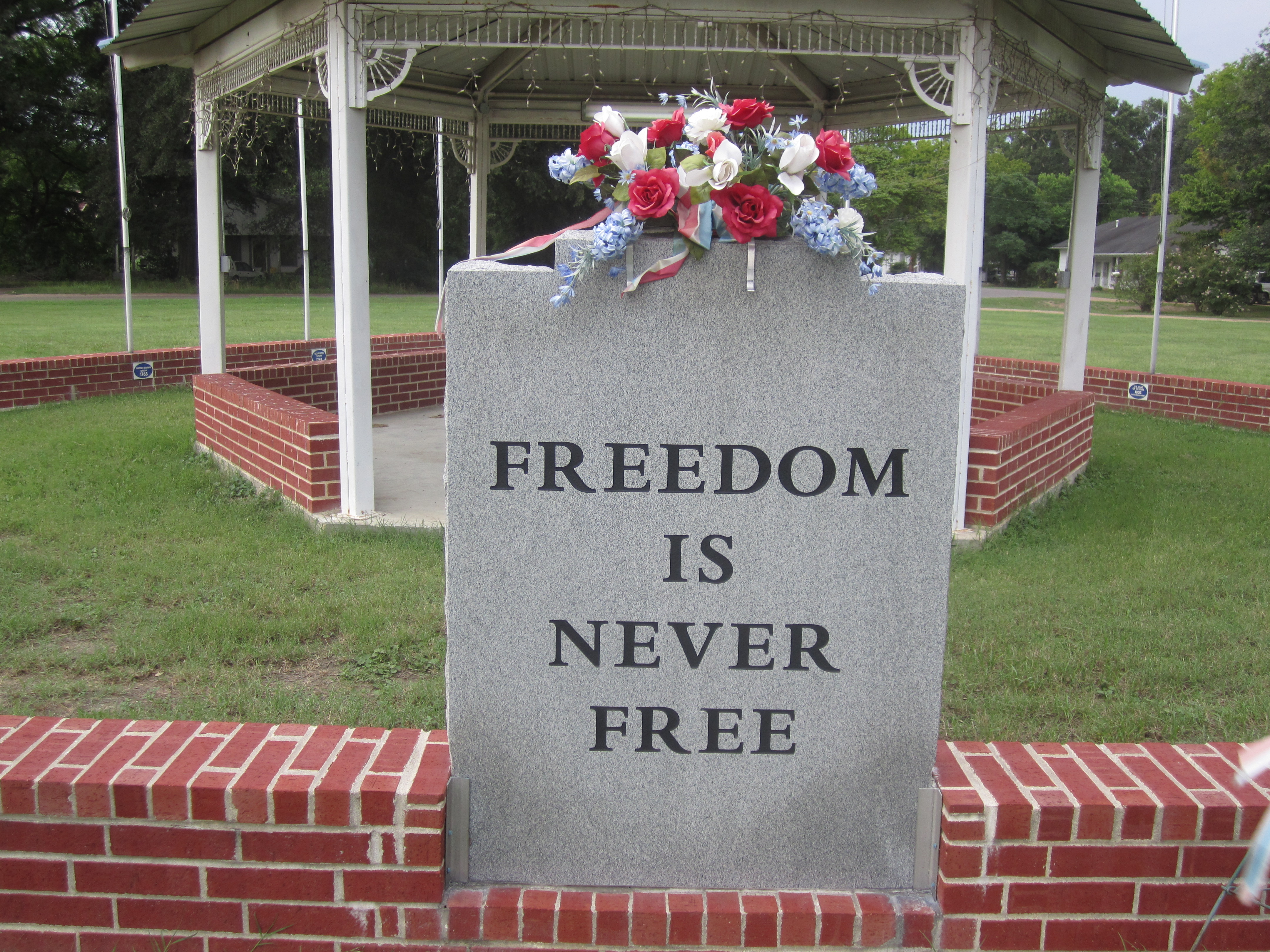 I took photo with Canon camera in Wisner, LA.